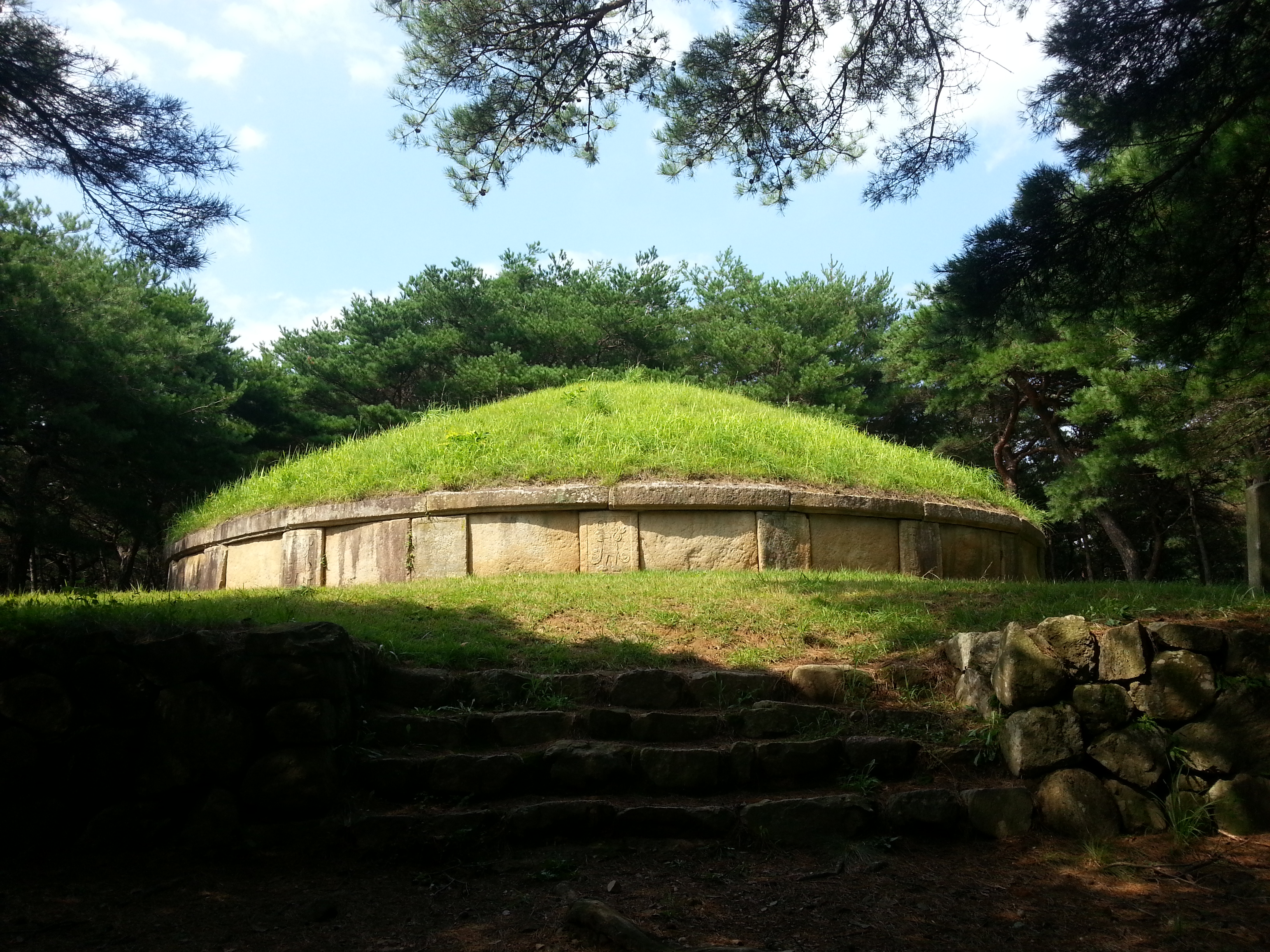 Royal tomb of Queen Jindeok of Silla located in Gyeongju, Gyeongsangbuk-do, South Korea.